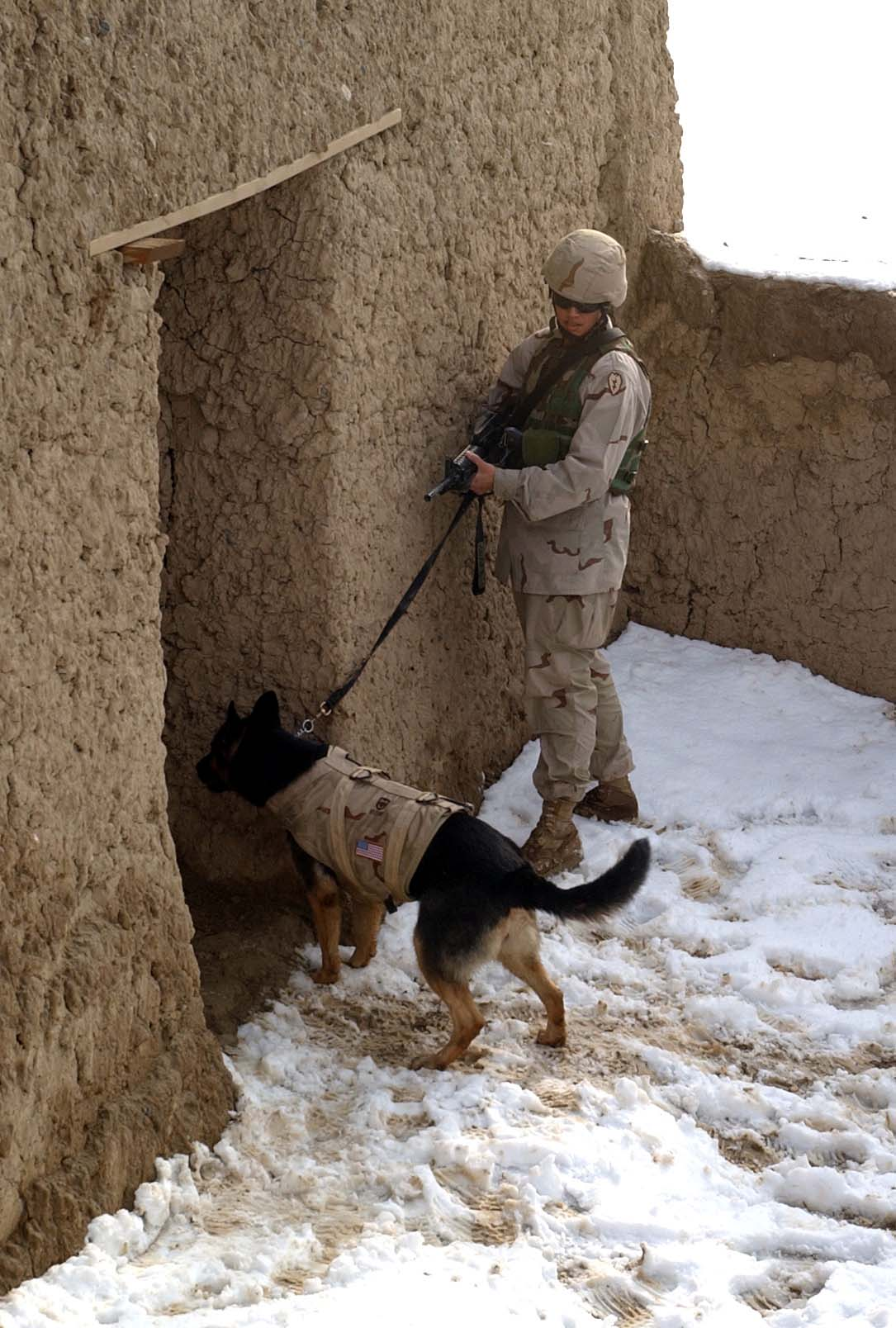 Army Sgt. 1st Class Erika Gordon, kennel master for the 25th Military Police Company, uses a building for cover while her military working dog, Hanna wearing "K9 Storm" body armor, clears a doorway at the military-operations-in-urban-terrain training site at Bagram Air Base, Afghanistan. Photo by Spc. Cheryl Ransford, USA